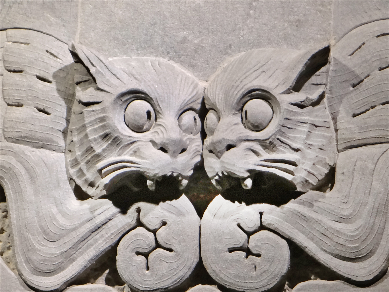 Reliefs on the Jugendsali in Helsinki.